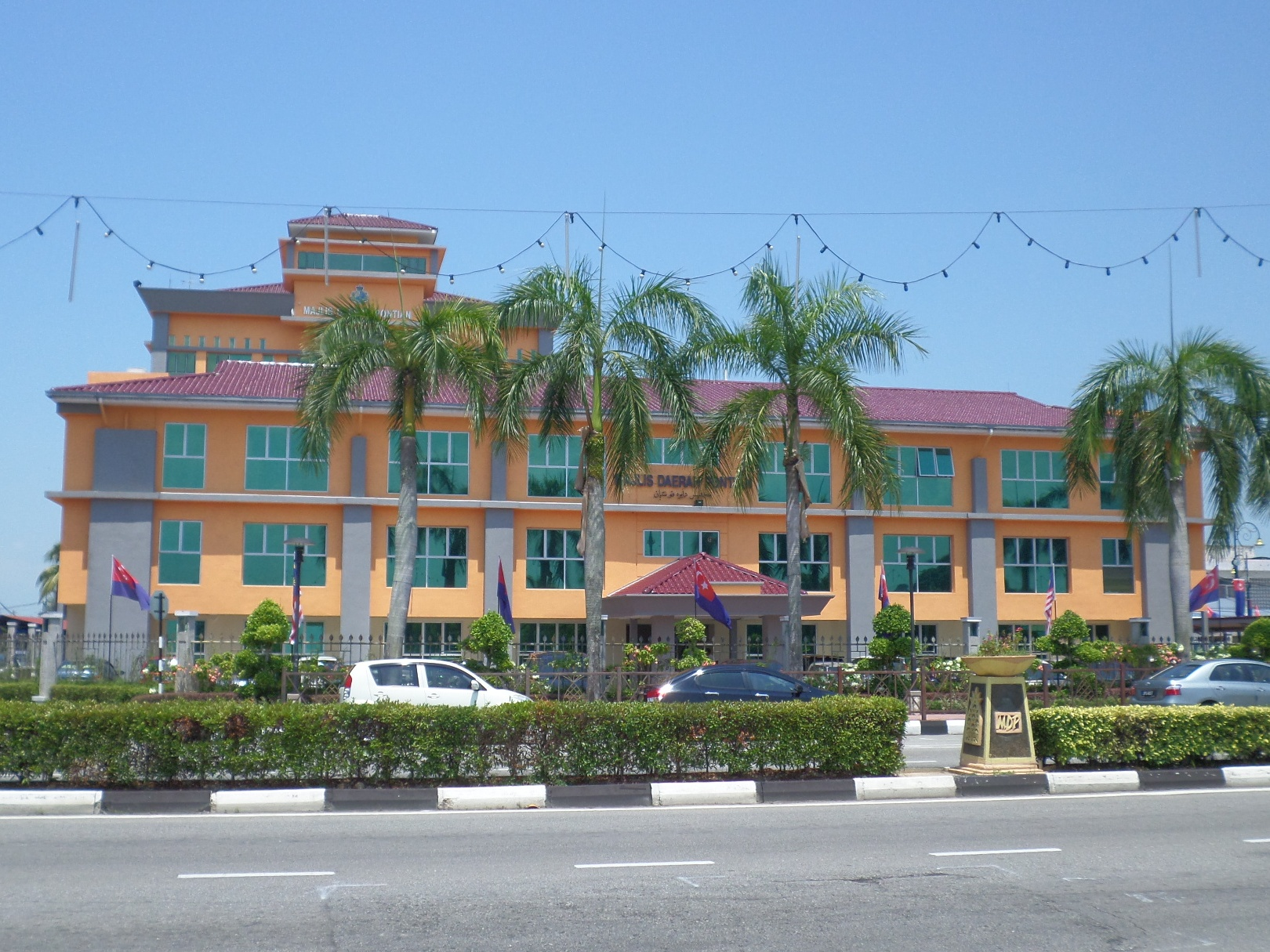 Pontian District Council, Pontian Kechil, Pontian, Johor, Malaysia